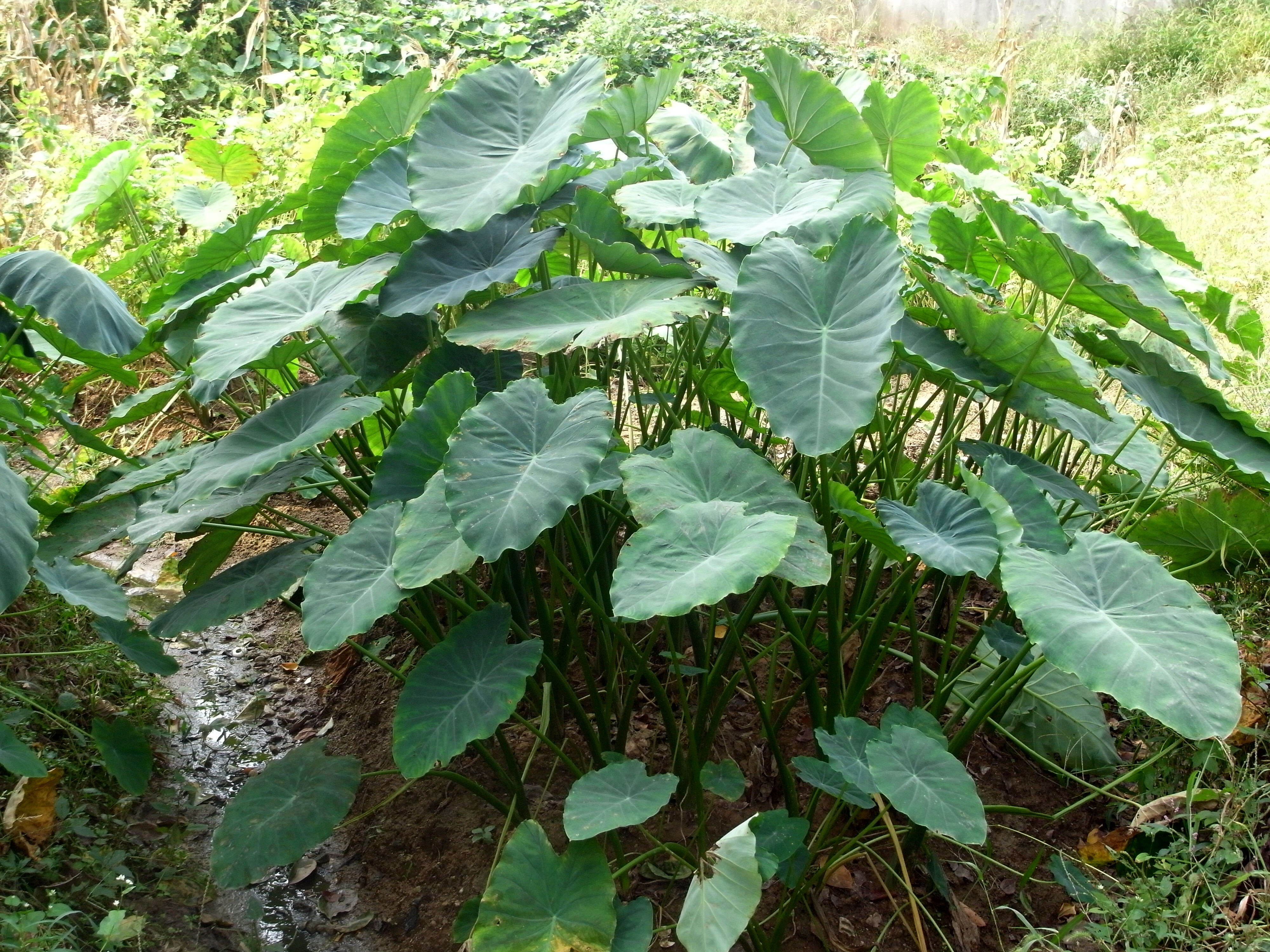 Colocasia esculenta in Gwangju, Korea